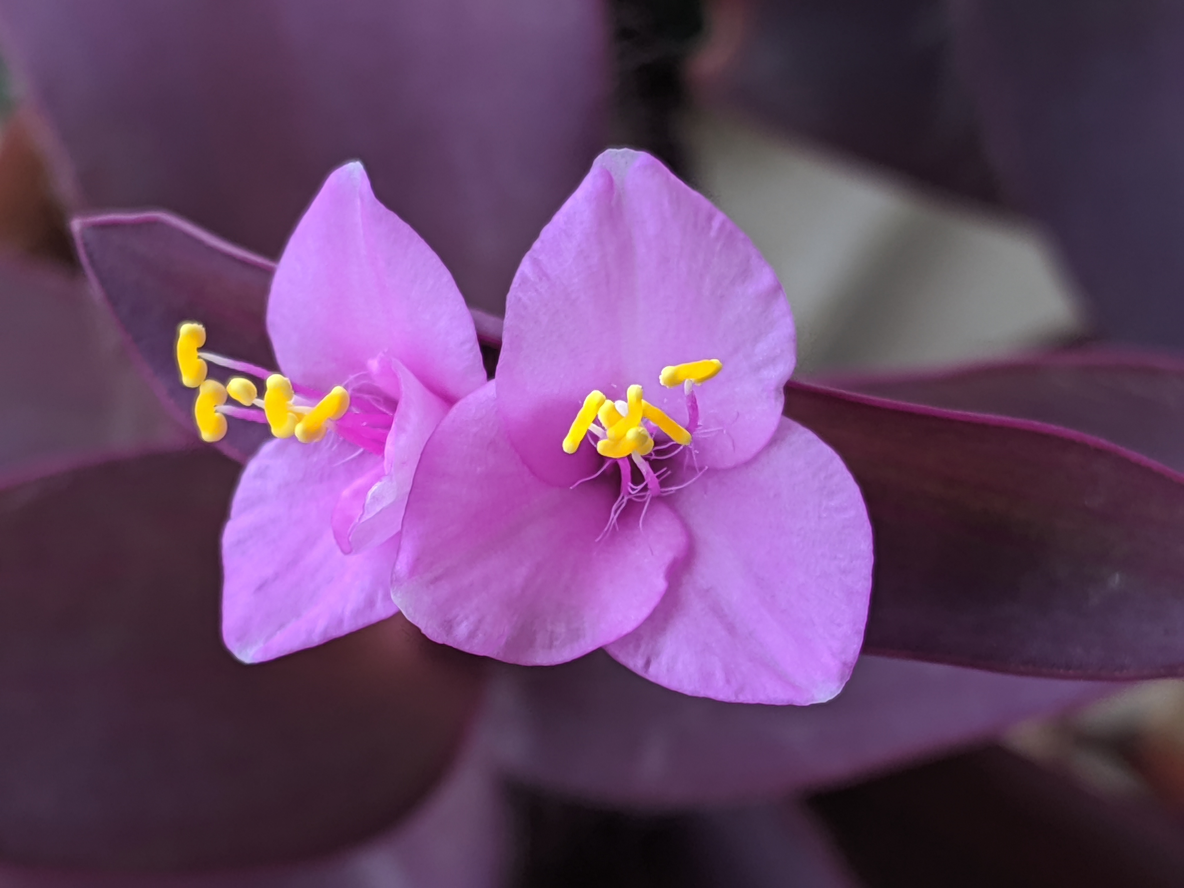 Tradescantia pallida